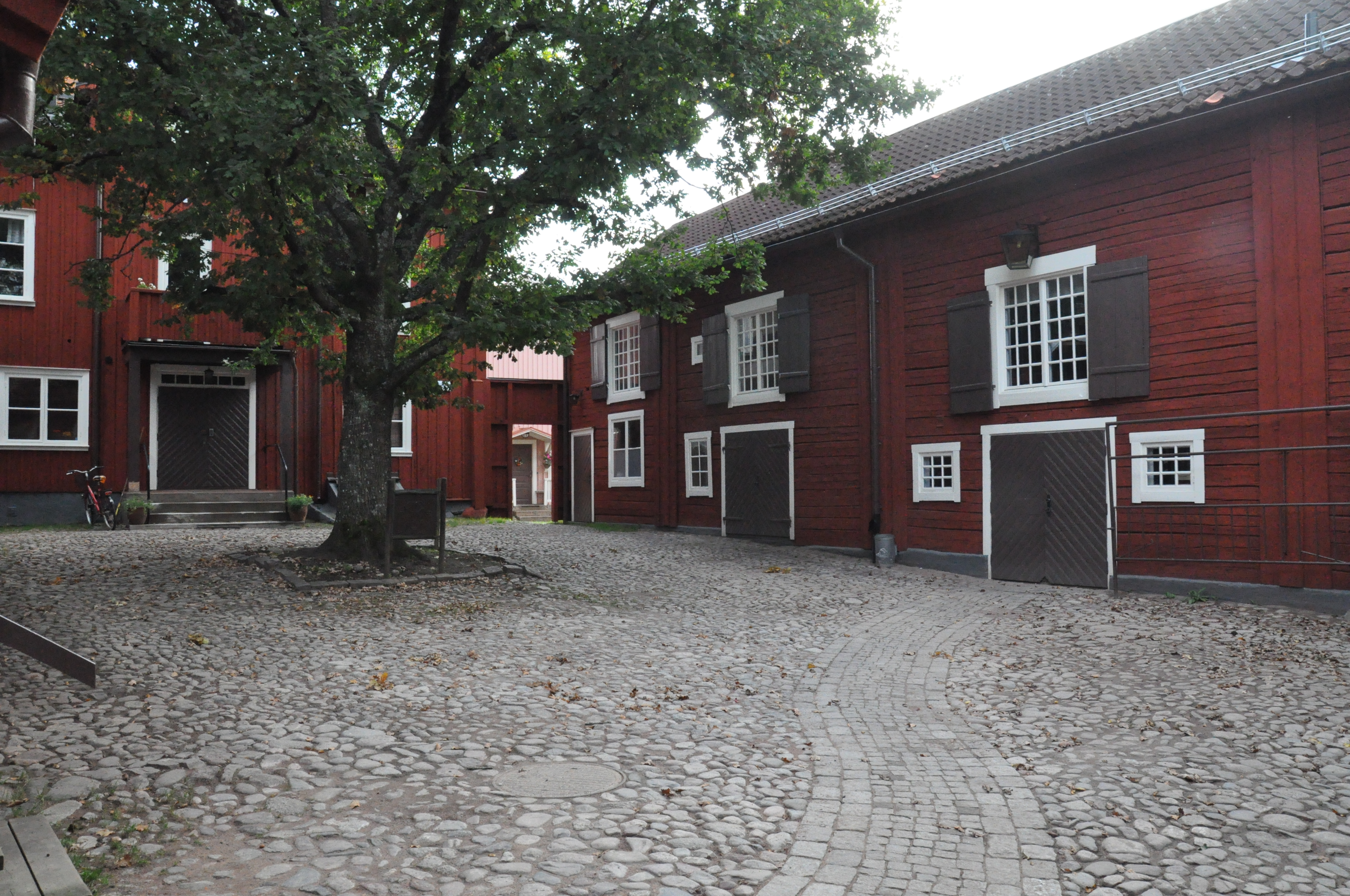 Krusagården, Eksjö